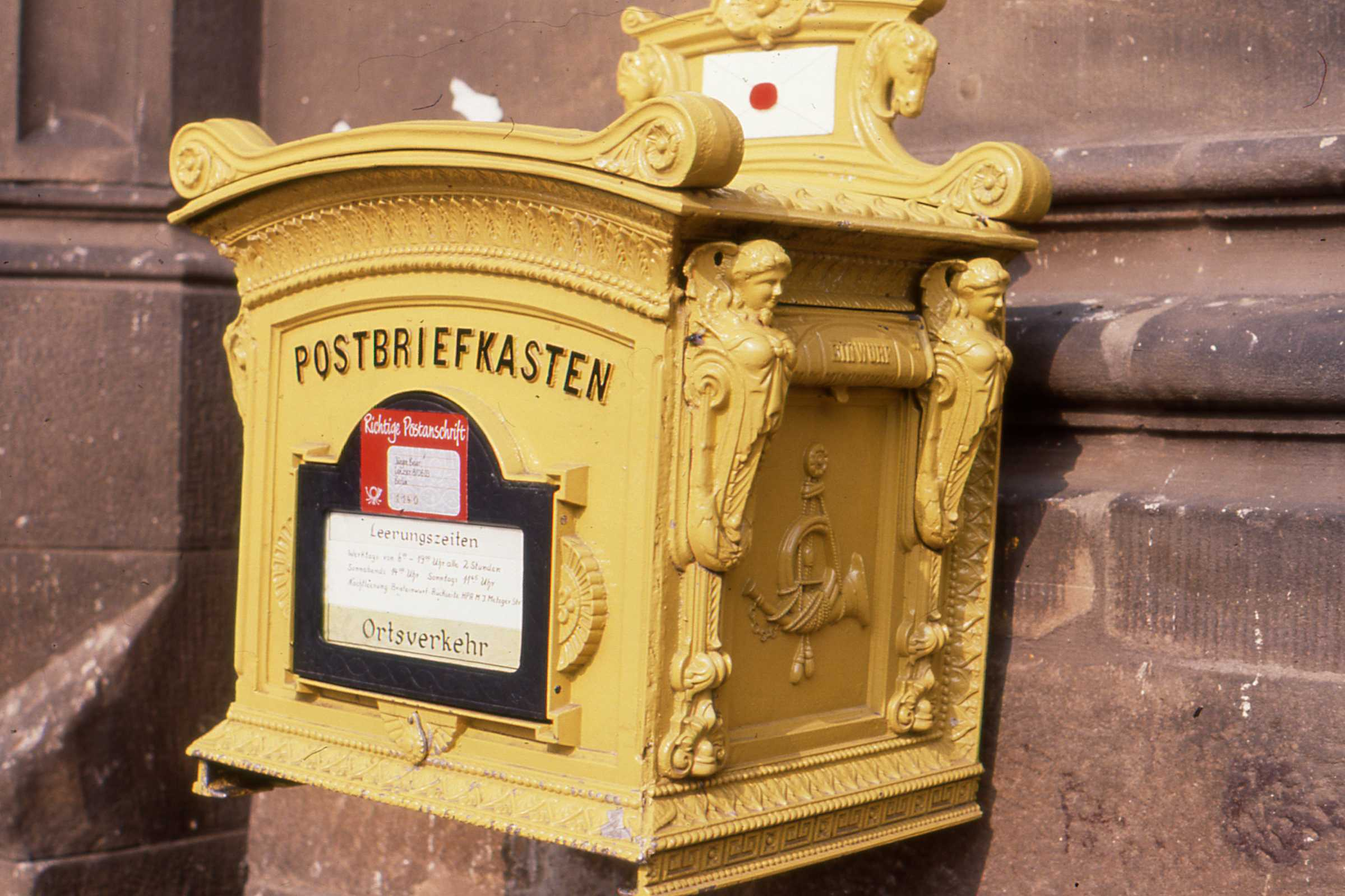 Box for Ortsverkehr, ie mail with Magdeburg addresses only.